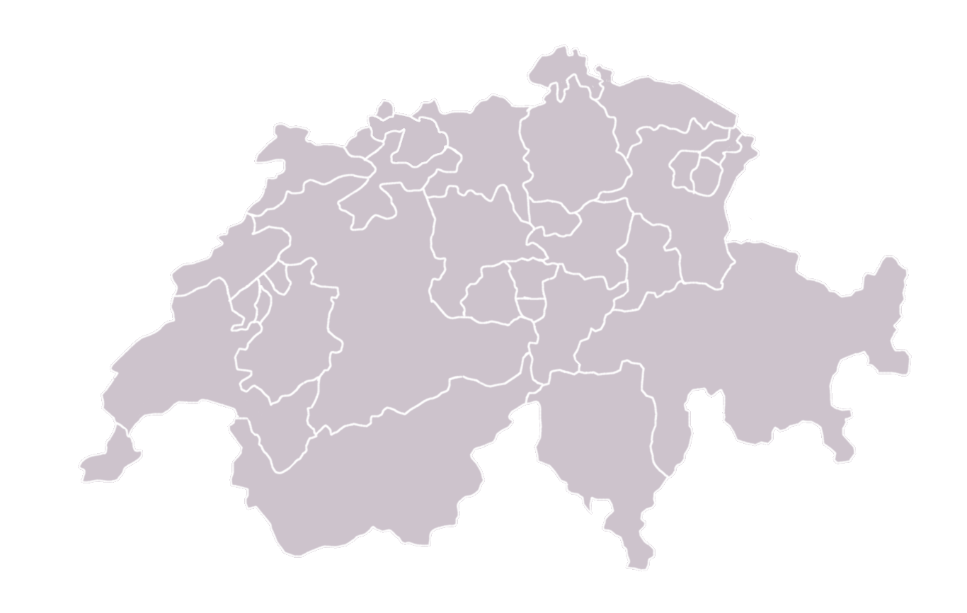 The borders have been traced out from this image, but I can't guarantee their accuracy. Ojw 22:13, 12 Feb 2005 (UTC)